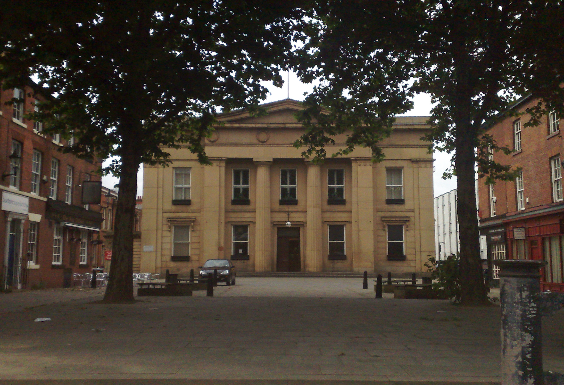 Salford Old Town Hall, the former HQ of Salford City Council. Now the magistrates courts.